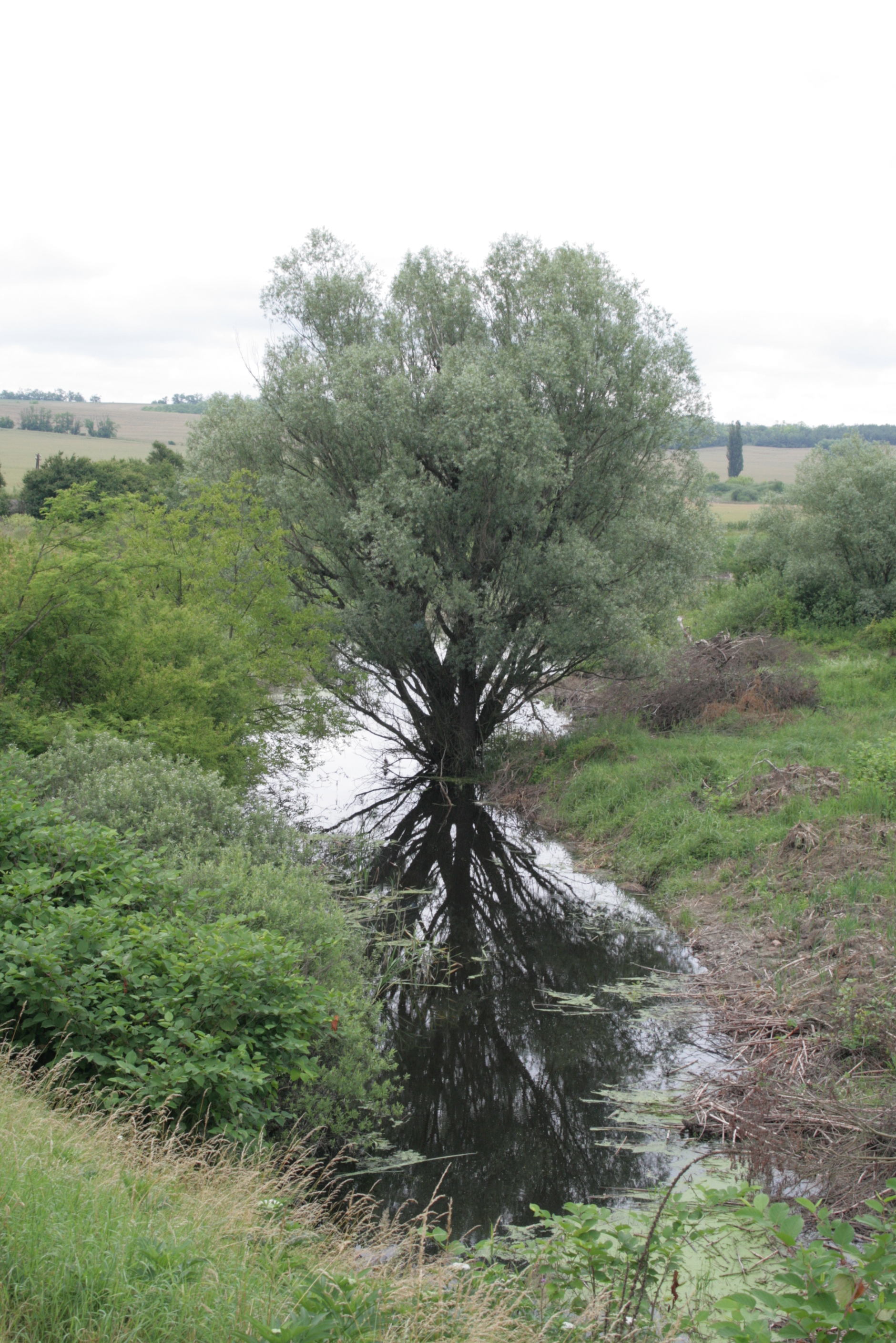 Paríž marshes near Gbelce (Slovakia)